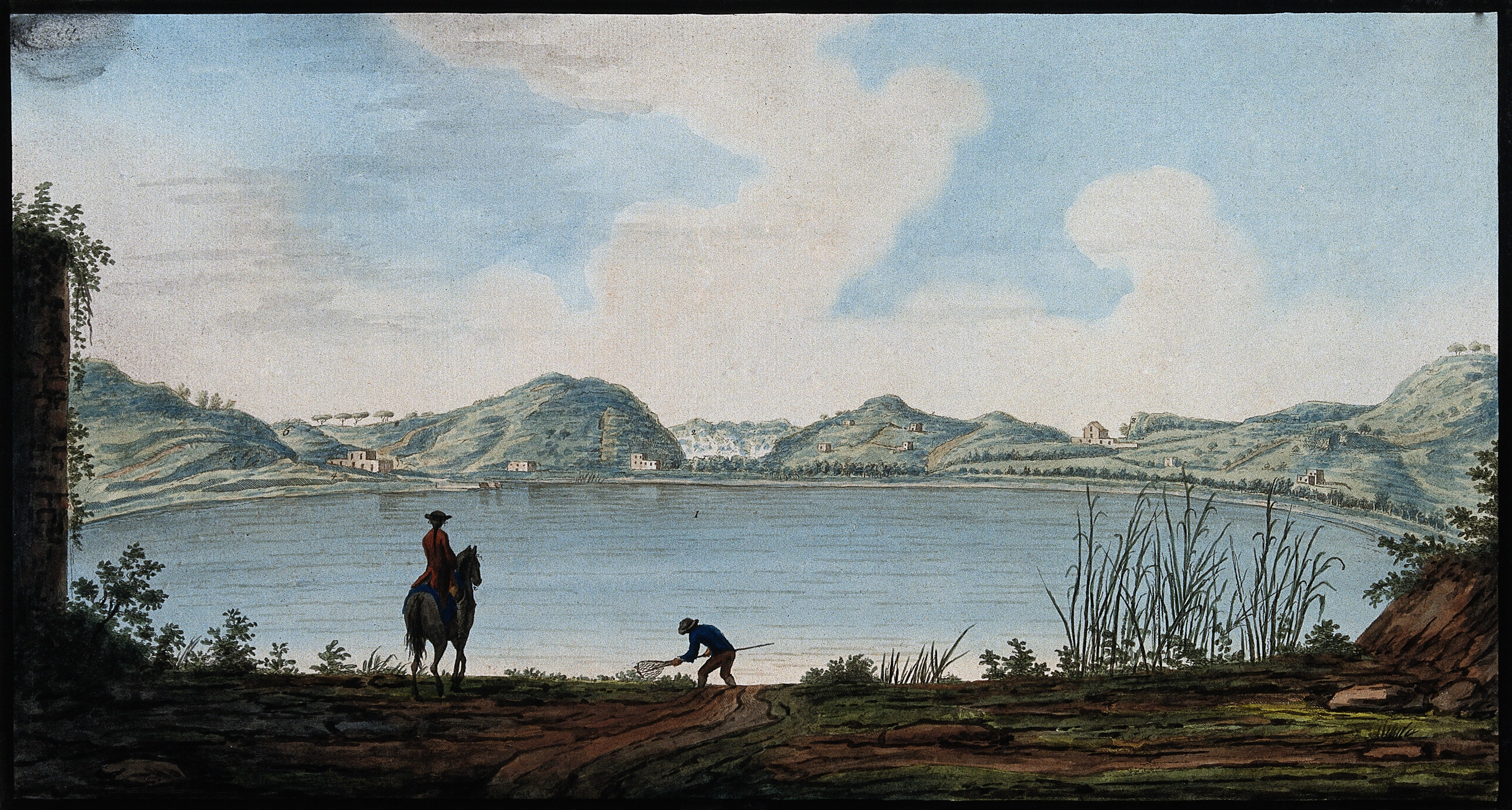 The lake of Agnano. Coloured etching by Pietro Fabris, 1776. Iconographic Collections Keywords: William Hamilton; Pietro Fabris